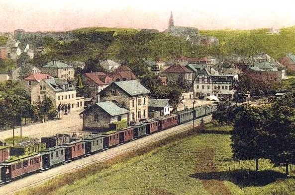 This image shows the narrow gauge station Dohna in Saxony.